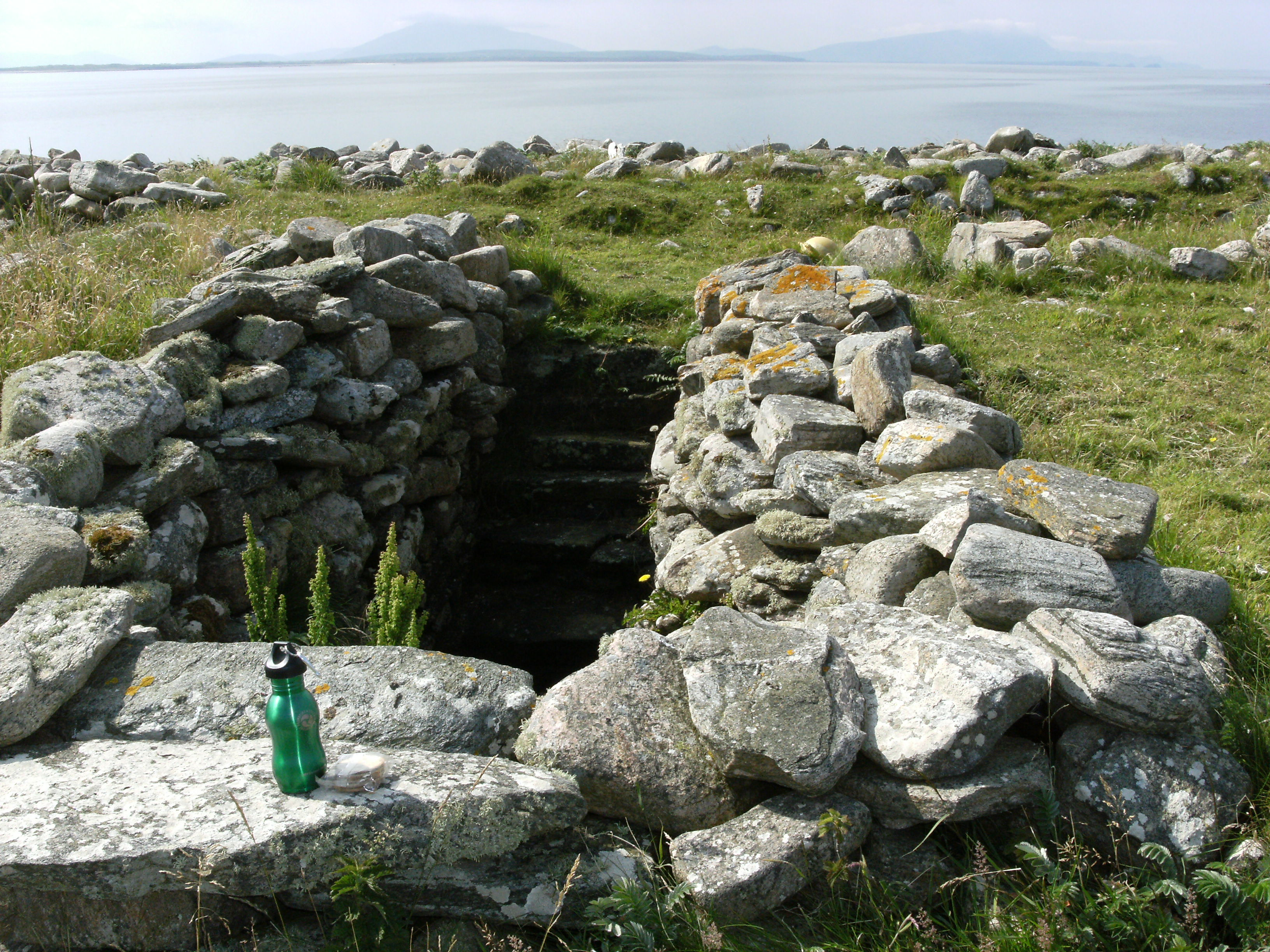 This is the freshwater well on Inishglora island in County Mayo in Ireland.